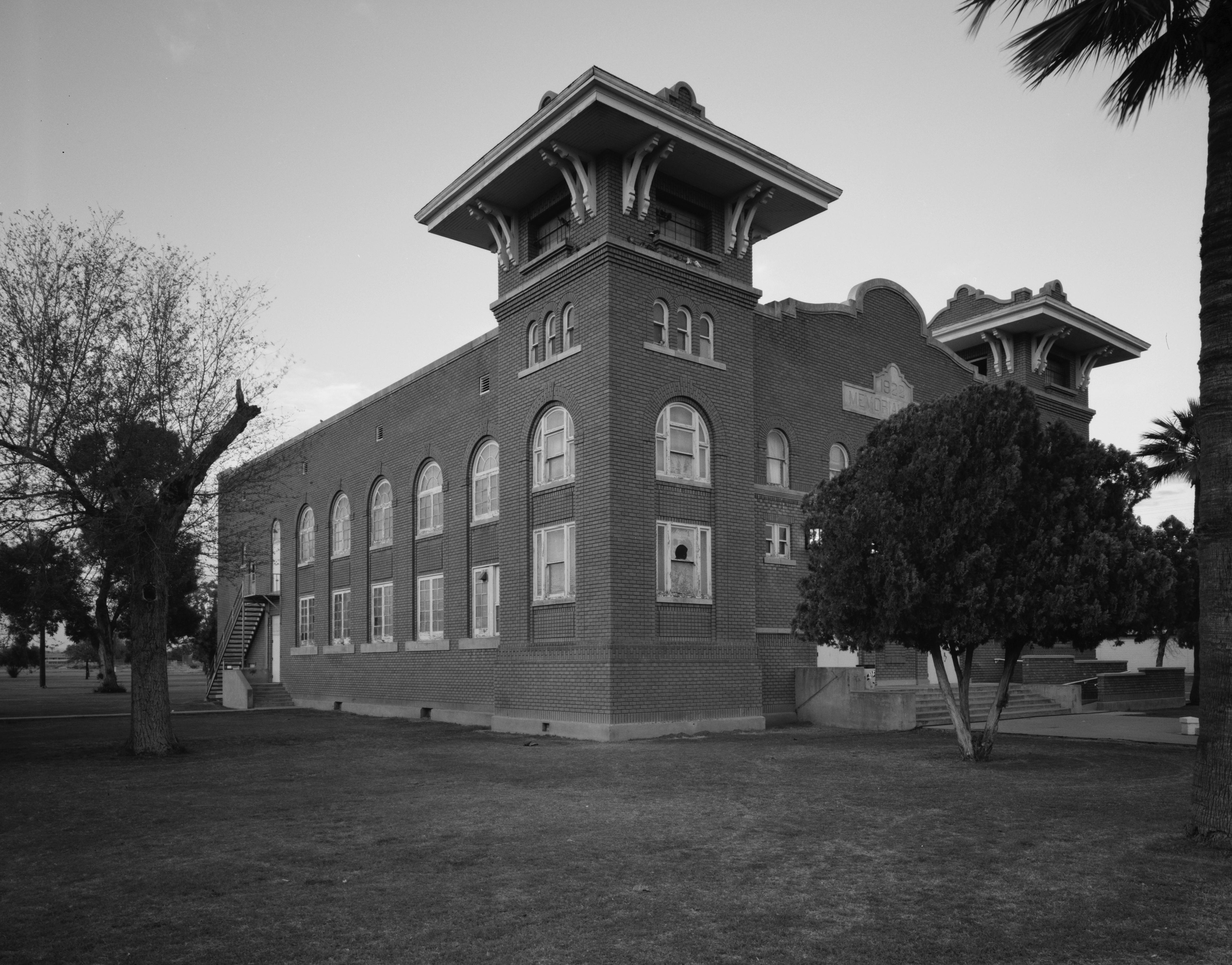 Front of Memorial Hall at the Phoenix Indian School — located at 300 E. Indian School Road in Phoenix, Arizona, United States. Built in 1922, the hall and other buildings at the school compose the Phoenix Indian School Historic District, which is listed on the National Register of Historic Places. 1990 image: HABS—Historic American Buildings Survey in Arizona.